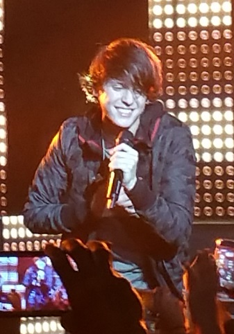 Christopher Velez (Ecuador), member of CNCO boy band (First winners of Univision music reality show La Banda), debut solo concert Jan. 30, 2016, at the Fillmore Miami Beach, Jackie Gleason Theater.